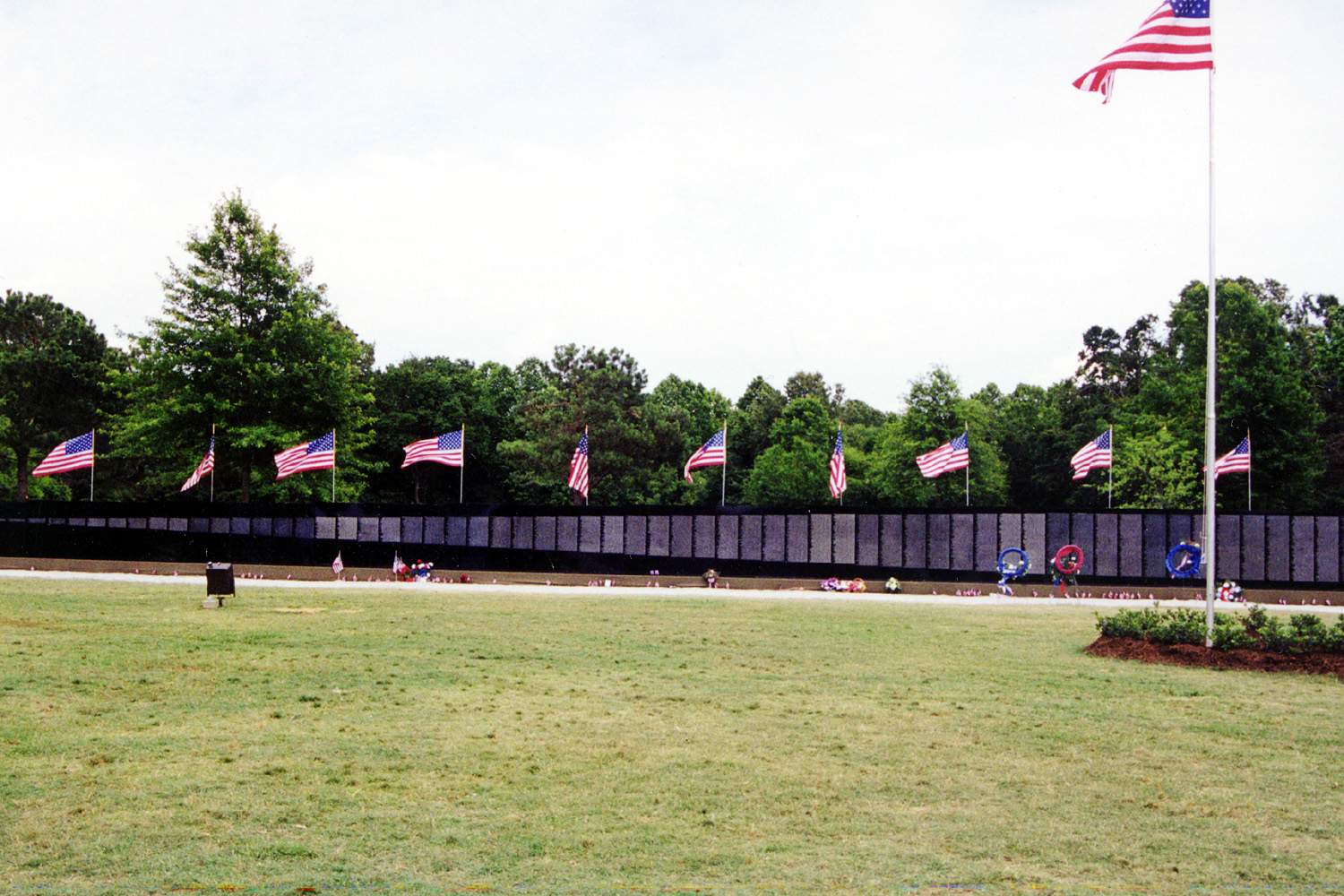 The Moving Vietnam Wall at Grenada, Mississipp, USA on May 15, 1999.